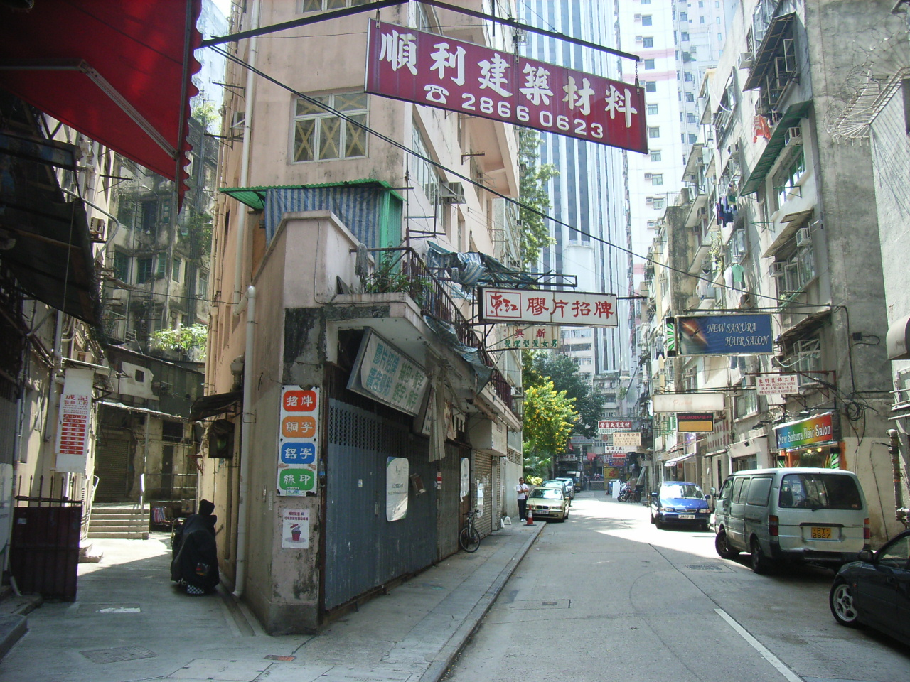 廈門街 (Amoy Street)，灣仔舊區街道 Wanchai old streets, Hong Kong. (A1 Wong East).